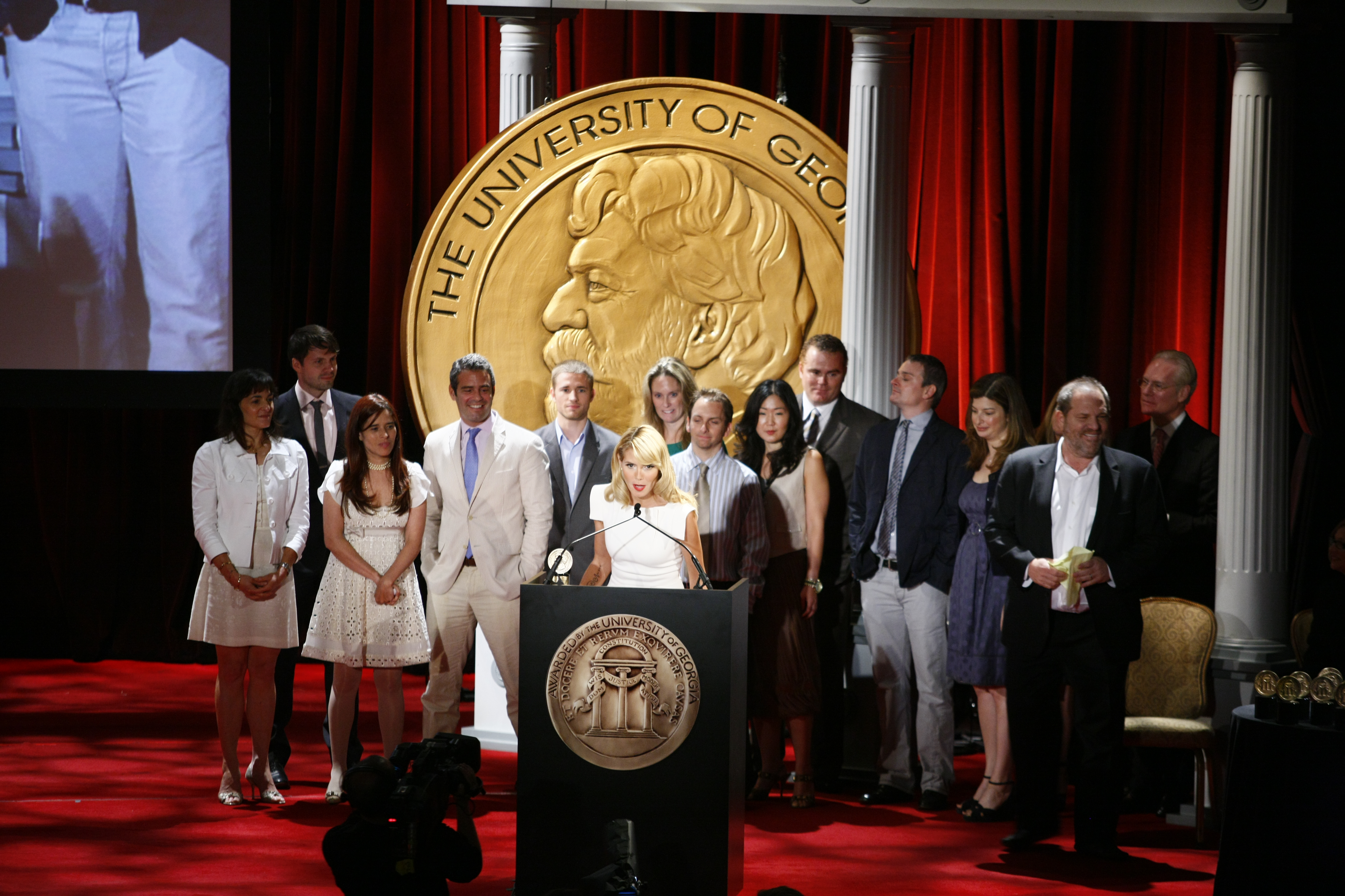 PHOTO CREDIT: ANDERS KRUSBERG / PEABODY AWARDS Jane Lipsitz, Harvey Weinstein, Heidi Klum, Tim Gunn and Nina Garcia 67th Annual Peabody Awards Luncheon Waldorf=Astoria Hotel New York, NY USA June 16, 2008